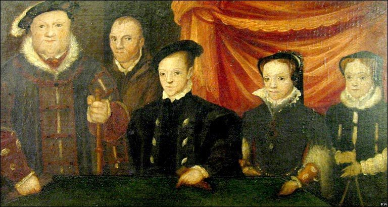 From left to right-Henry VIII, his jester Will Somers, his son Edward, daughter Mary and daughter Elizabeth. A rare portrait of Queen Elizabeth I as a young princess has been discovered in a private collection at a stately home in Northamptonshire. The portrait, dating from 1650 to 1680, was found in the Duke of Buccleuch's collection at Boughton House. It shows Elizabeth with siblings Edward VI and Mary I, father Henry VIII and his jester, Will Somers. It is a copy of an original panel painting, which is thought to date back to the early 1550s.